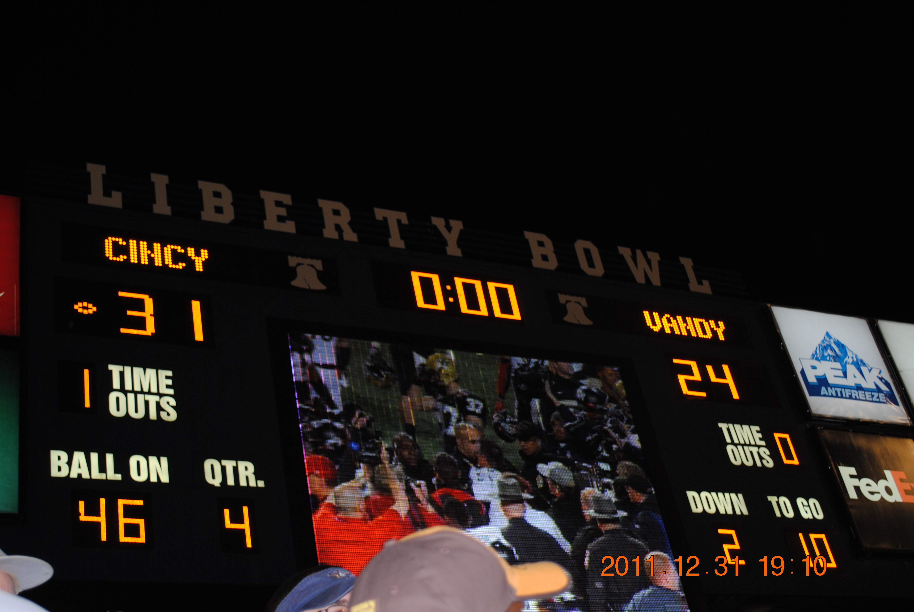 The final scoreboard at the end of the 2011 Liberty Bowl.